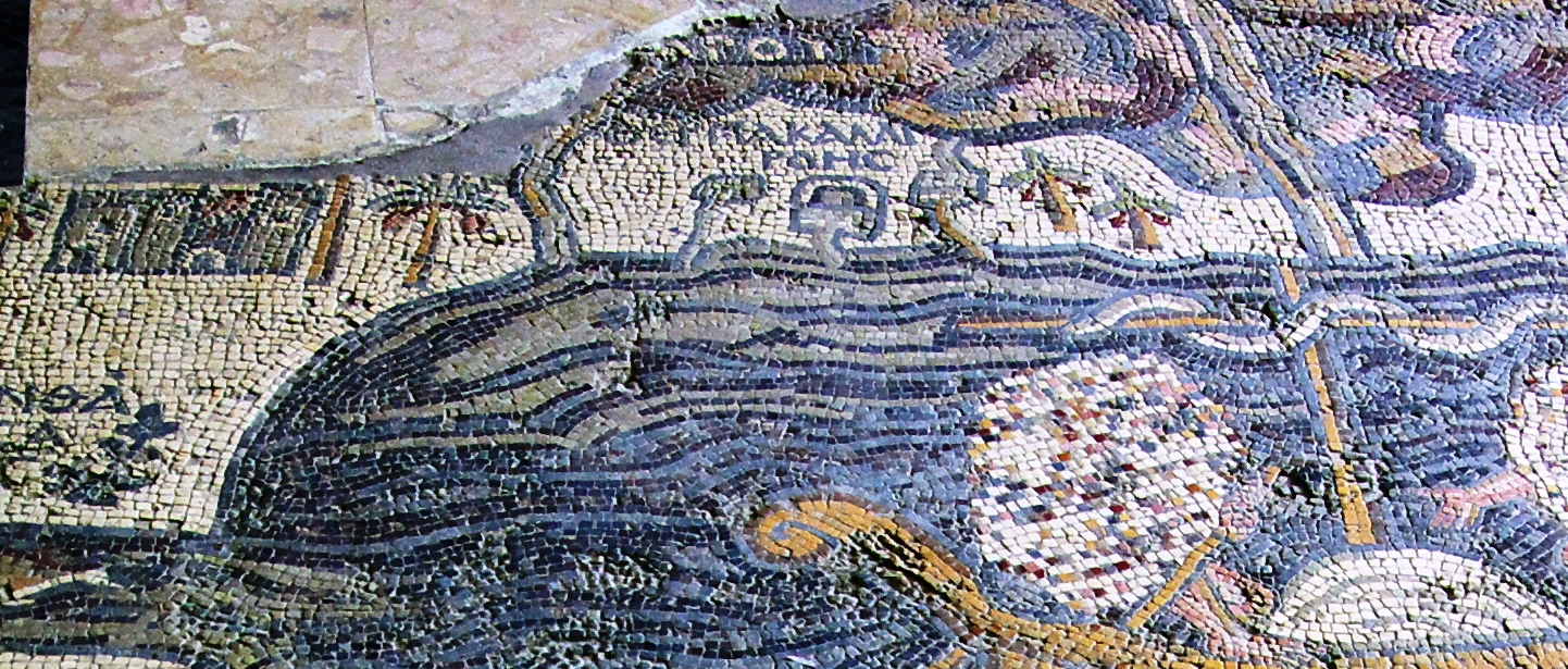 The hot springs of Callirhoe, Jordan, on the north-eastern shores of Dead Sea, as depicted in the Madaba map.